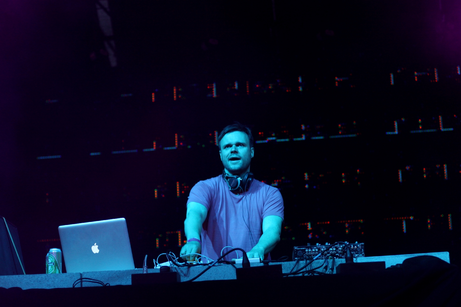 Tensnake at Balaton Sound (Zamárdi, Somogy, Ungarn)